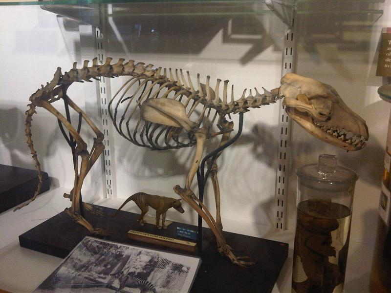 Tasmanian tiger or Tasmanian wolf (Thylacinus cynocephalus) skeleton and model in Grant Museum of Zoology, London, England.